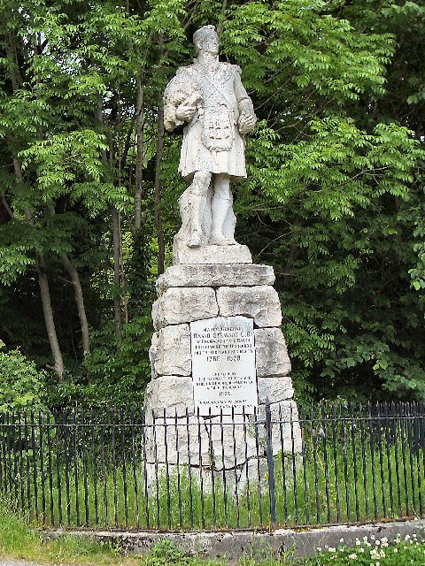 Major General David Stewart. This memorial in Keltneyburn commemorates a historian of the Highlands and the Highland regiments. He was born at Garth NN7650